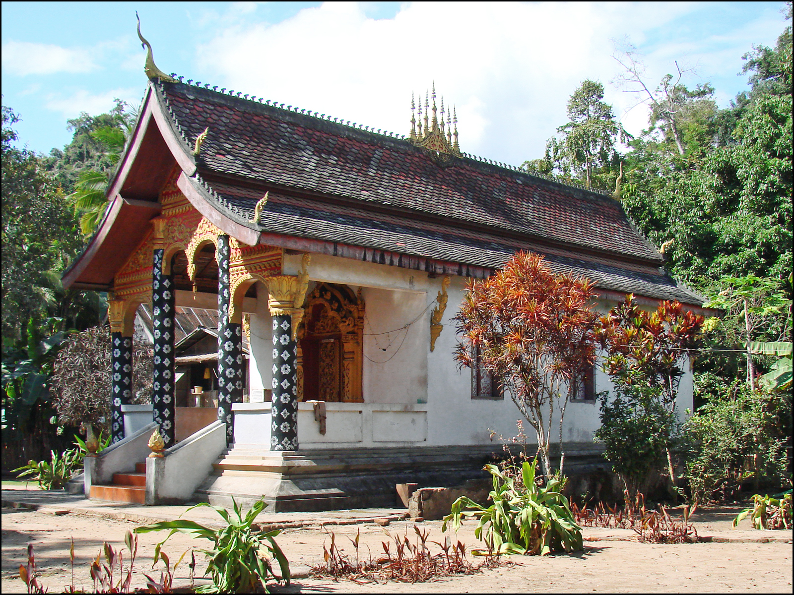 A village pagoda near Pak Ou, Laos, a village known for its artisans